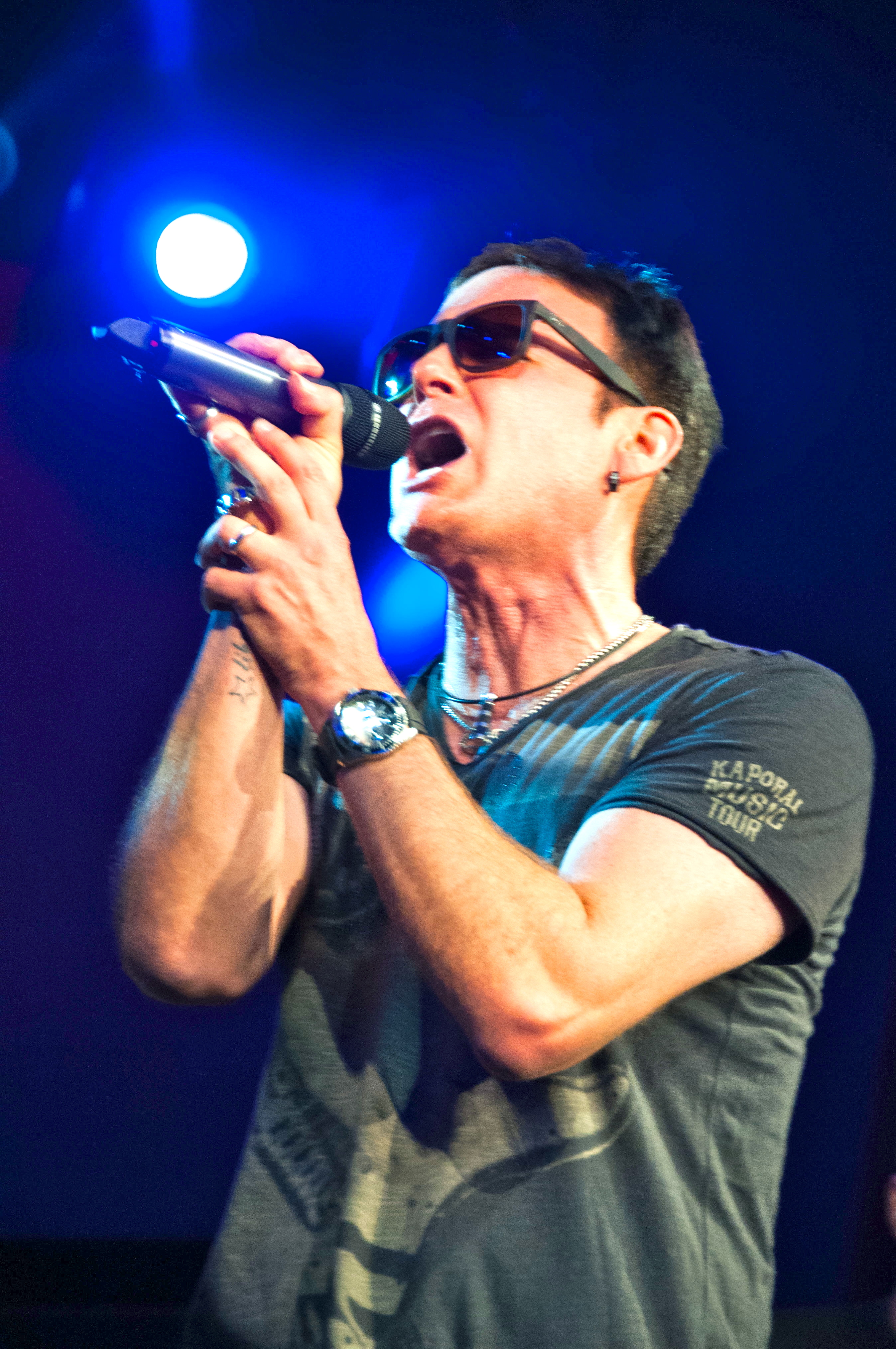 Corey Hart performs his hit "Sunglasses at Night" in Toronto, Canada on Sept. 28, 2012